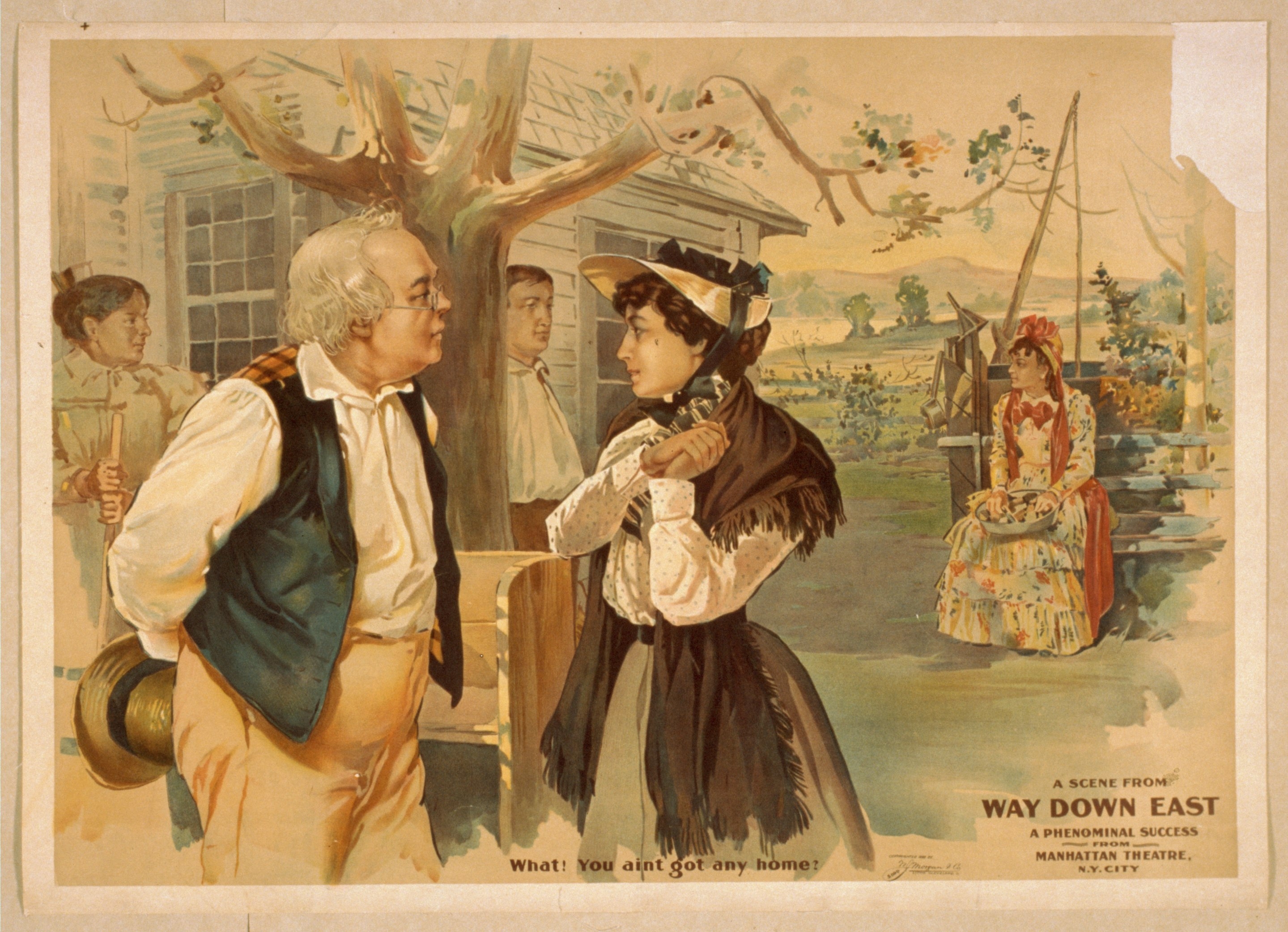 Title: A scene from Way down East a phenominal [sic] success from Manhattan Theatre, N.Y. City. Abstract/medium: 1 print : color lithograph ; sheet 49 x 67 cm. (poster format)